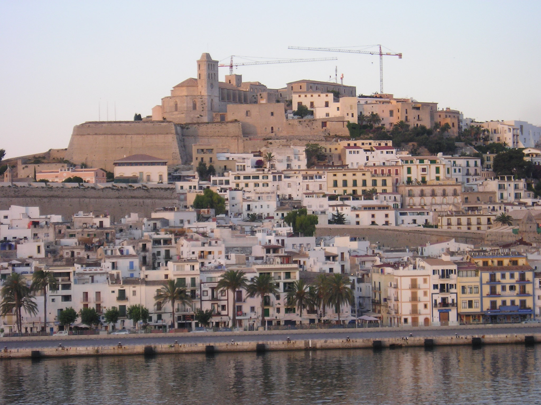 View of Ibiza Old Town with Cathedral Unknown